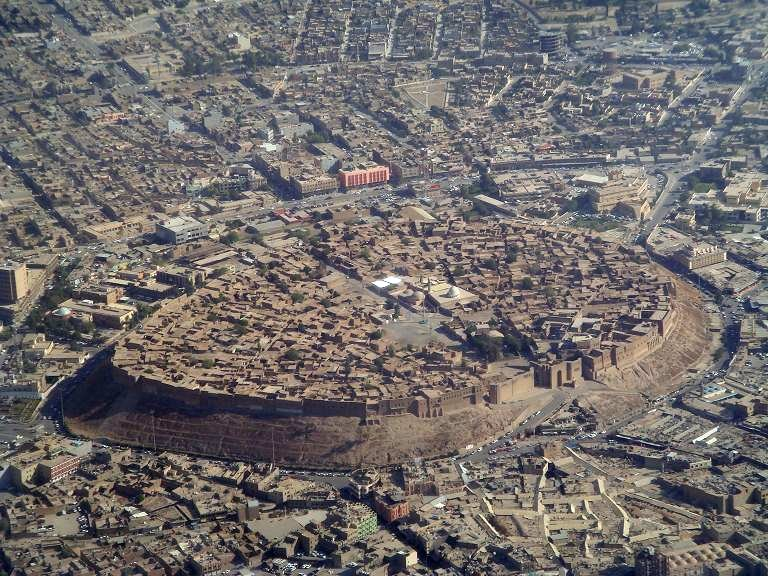 Aerial view of the Citadel of Arbil (Iraq)